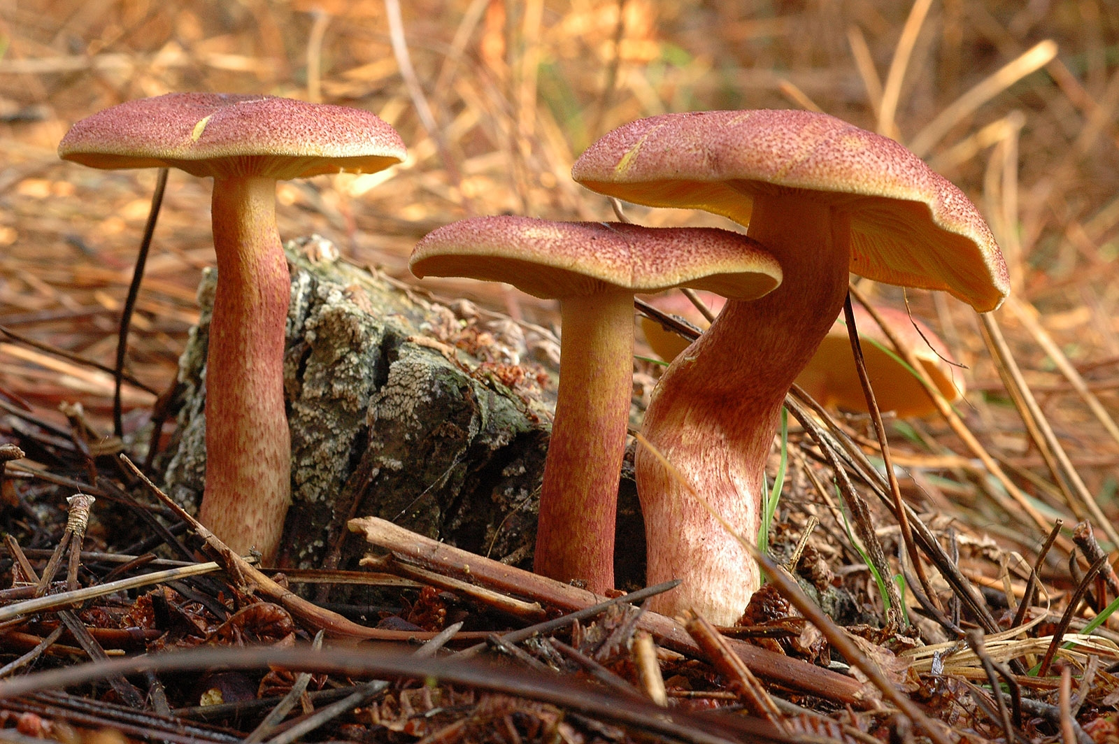 Tricholomopsis rutilans, Pine woods, Galicia/Northern Spain